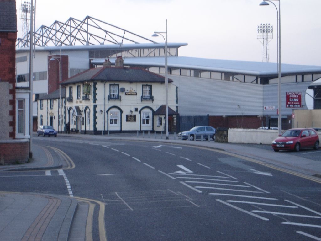 The Turf Hotel dwarfed by the Mold Road Stand.